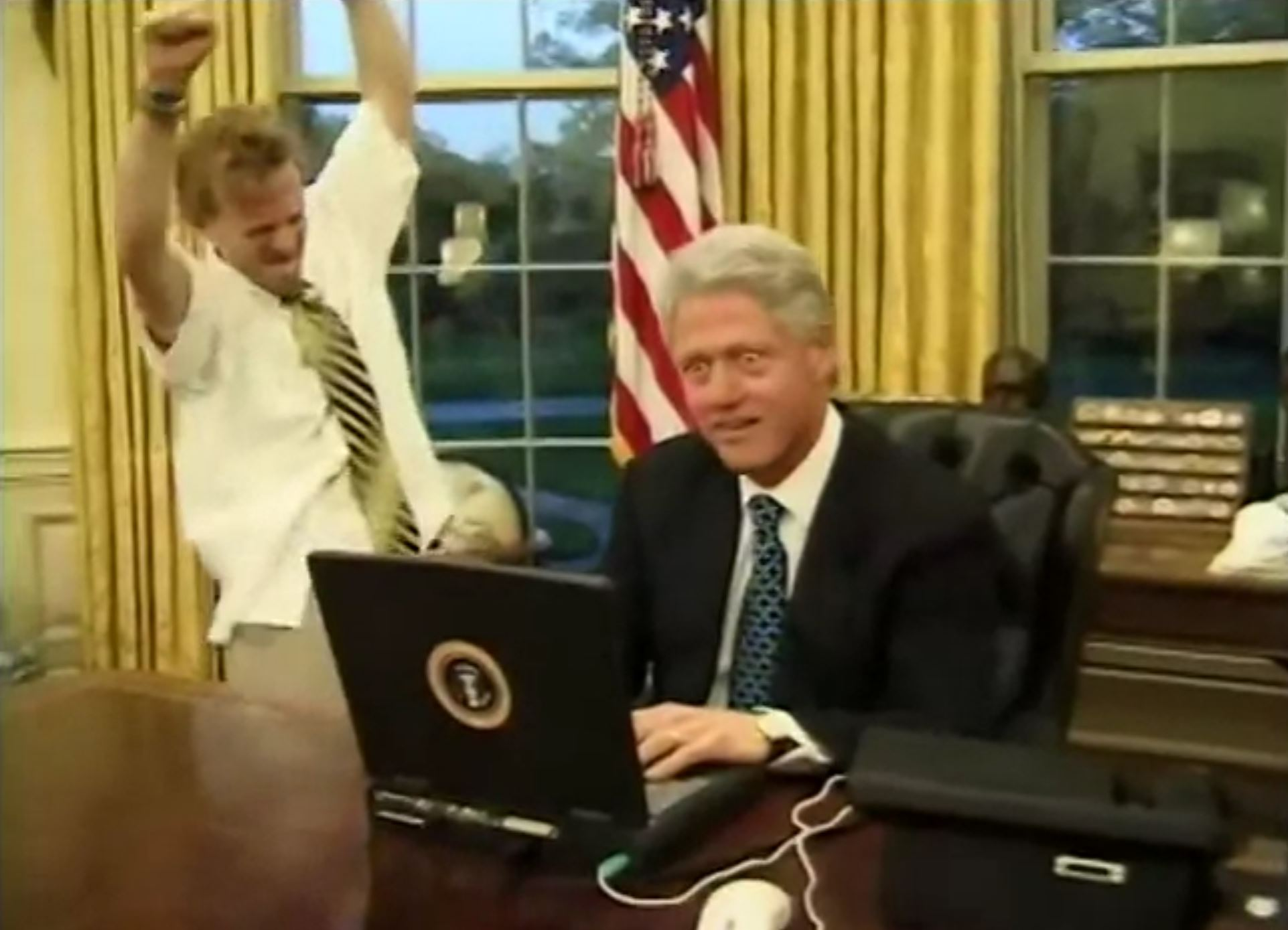 This is a screenshot of Maronna and Clinton in the video recording of "The Final Days," a humorous skit that was shown at the 2000 White House Correspondents' Dinner. It consists of footage containing President William Jefferson Clinton and Clinton adminstration White House staff portraying the daily routine of the remaining days of President Clinton as President in a humorous manner. This footage is official public record produced by the White House Television (WHTV) crew, provided by the Clinton Presidential Library. This footage is taken directly from the master footage produced that was displayed during the White House Correspondents' Dinner event. Producer: Greer, Margolis, Mitchell, Burns & Associates Date: April 29, 2000 (broadcast date) Location: White House. Washington, DC (production location) ARC Identifier: 5860128 Access Restriction(s): unrestricted Use Restrictions(s): unrestricted Camera: White House Television (WHTV) / Main/Cut Local Identifier: MT11909